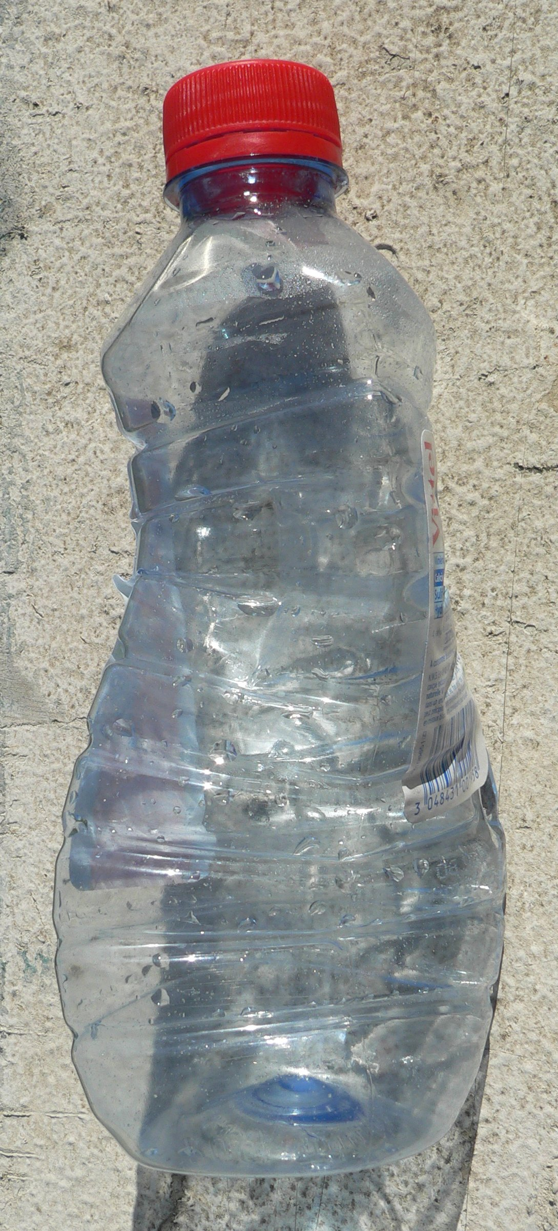 Atmospheric pressure at sea level crushing an empty bottle opened at approximately 2000m